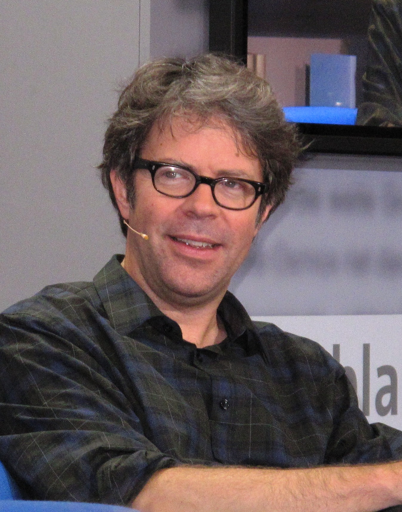 Jonathan Franzen - Frankfurt Book Fair 2010